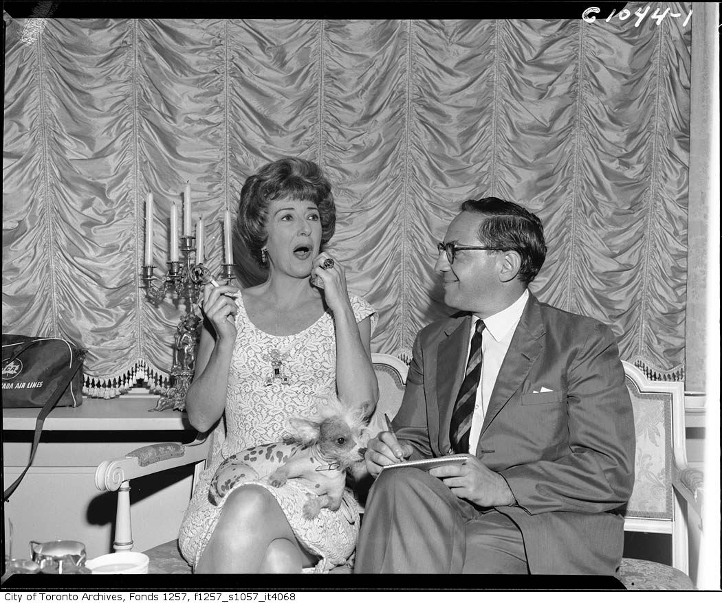 Photographer: Alexandra Studio ca. 1955 City of Toronto Archives This image is available from the City of Toronto Archives, listed under the archival citation Series 1057, Item 4068. This tag does not indicate the copyright status of the attached work. A normal copyright tag is still required. See Commons:Licensing for more information.